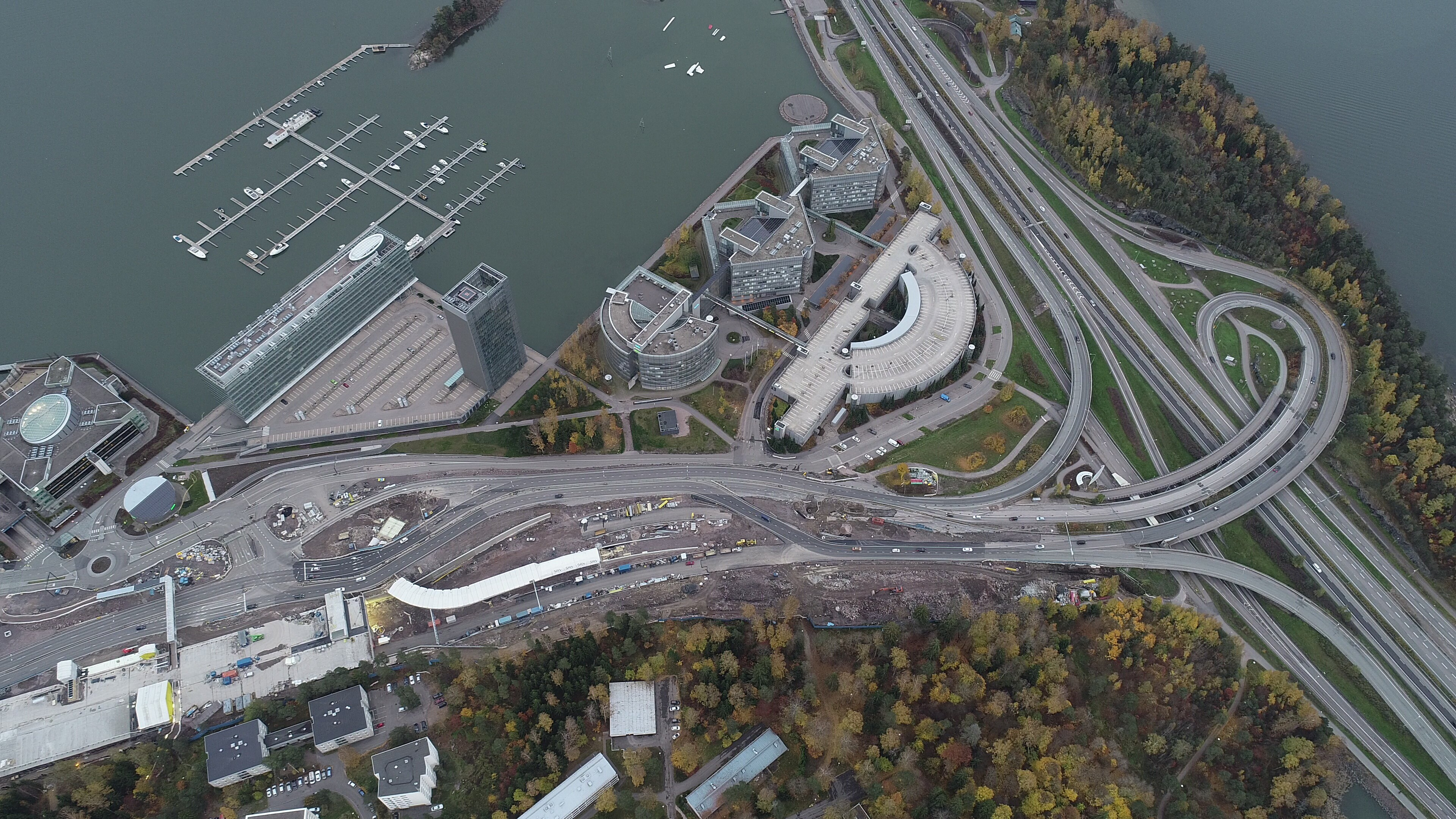 Aerial photographs of the interchange of the Main Road 51 and the Ring road I (regional road 101) in Espoo, Finland.